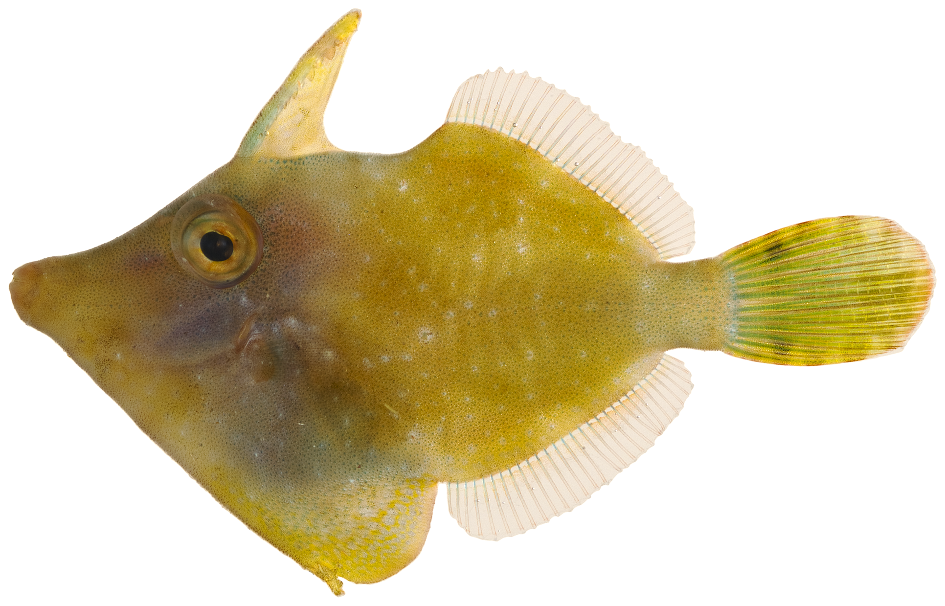 Monacanthus ciliatus (Mitchill, 1818)—fringed filefish, 33.4 mm SL. Photo by JT Williams.